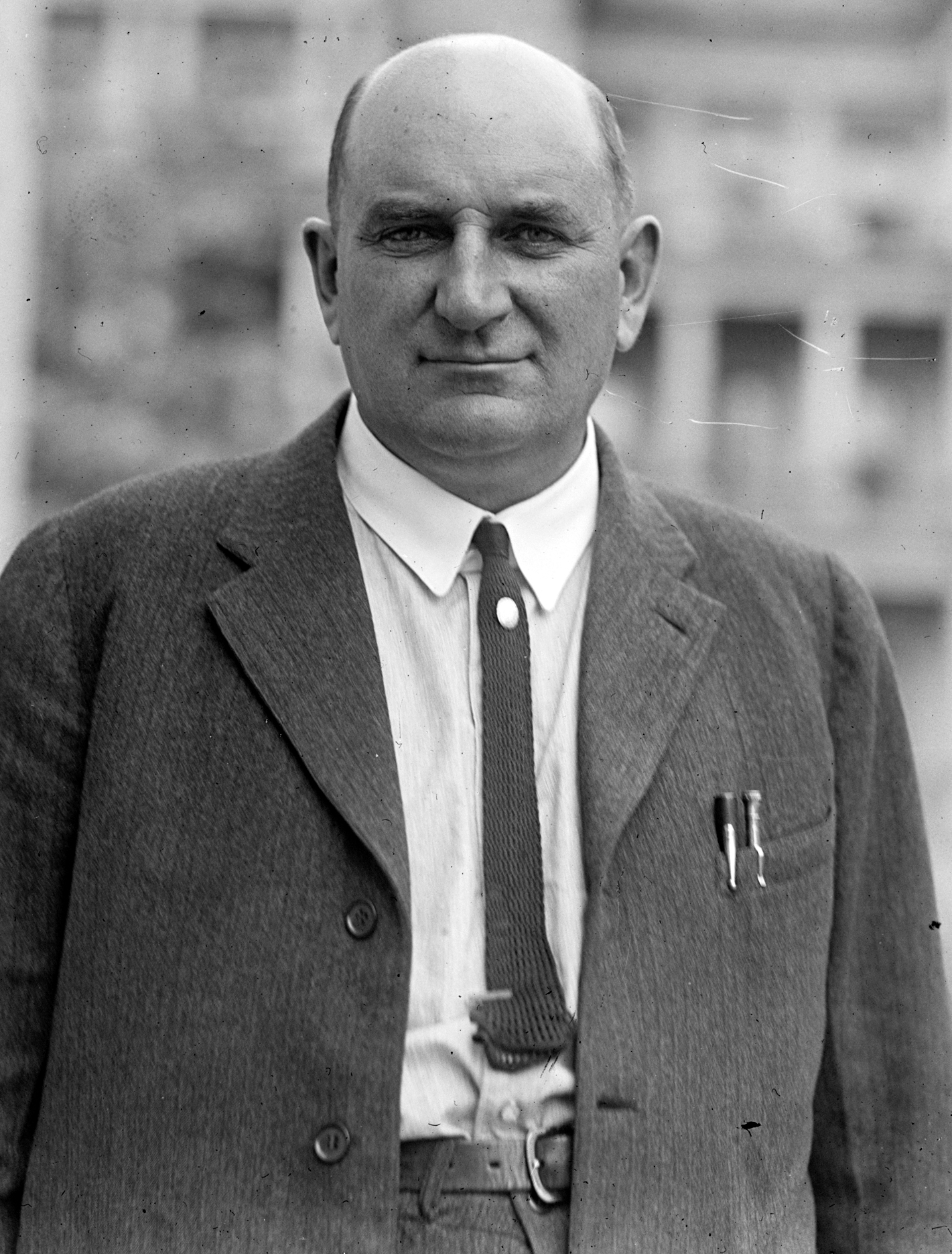 Lynn Frazier, US Senator from North Dakota and Governor of that state